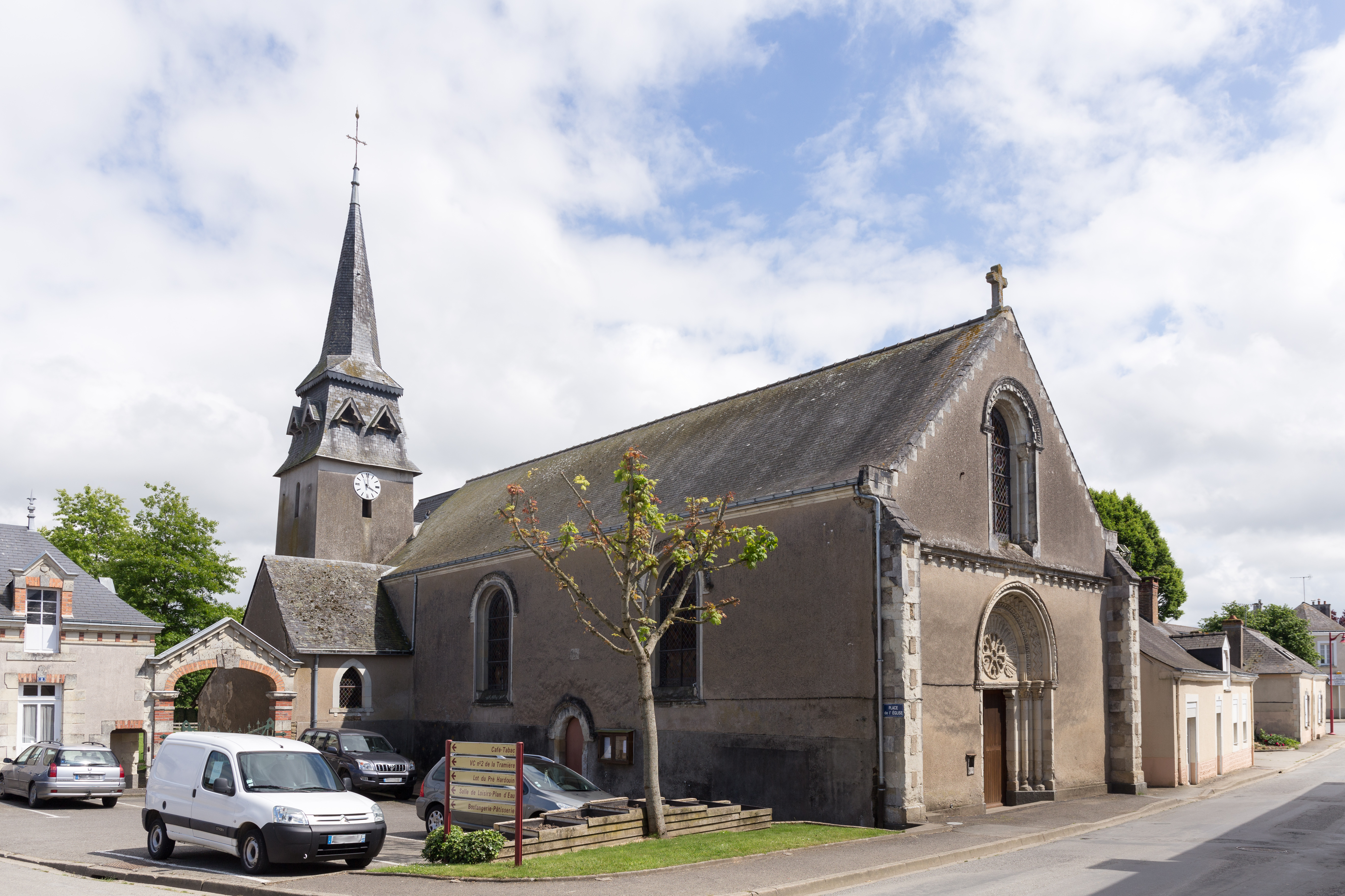 Church of Marigné-Peuton.